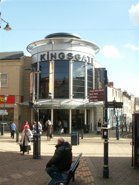 Kingsgate Shopping Centre The town centre entrance to the new Shopping Centre on the corner of Cross Church Street and King Street